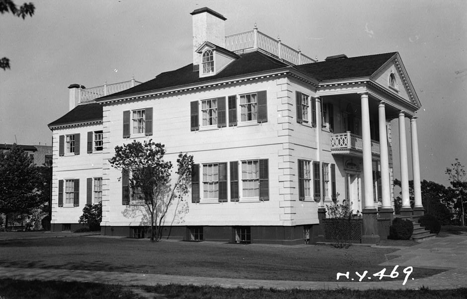 Morris-Jumel Mansion, Edgecomb Avenue & 160th-162nd Streets, New York, New York County, NY - view from the southwest